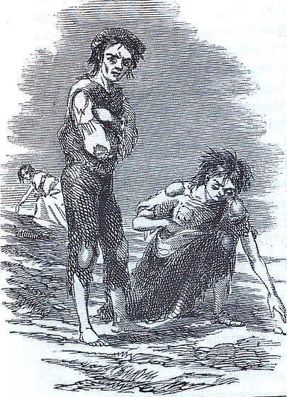 The scene at Skibbereen, west Cork, in 1847. From a series of illustrations by Cork artist James Mahony (1810–1879), commissioned by Illustrated London News 1847.